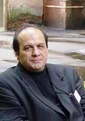 Fakouhi (2).jpg